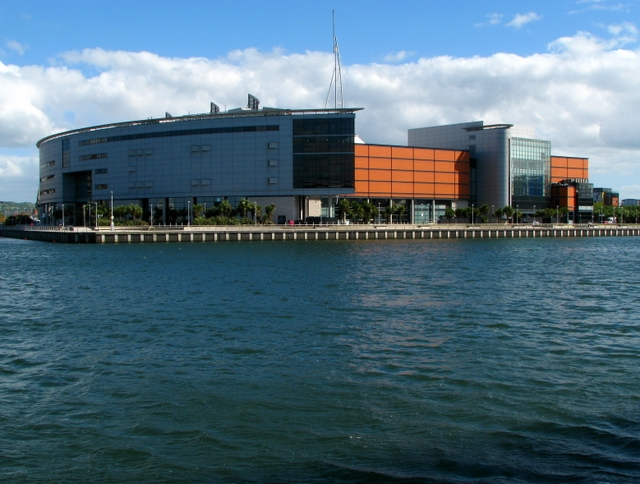 Odyssey Arena, Belfast. Another view (in better light than 640966) of the huge entertainment complex at Queen's Quay in Belfast.